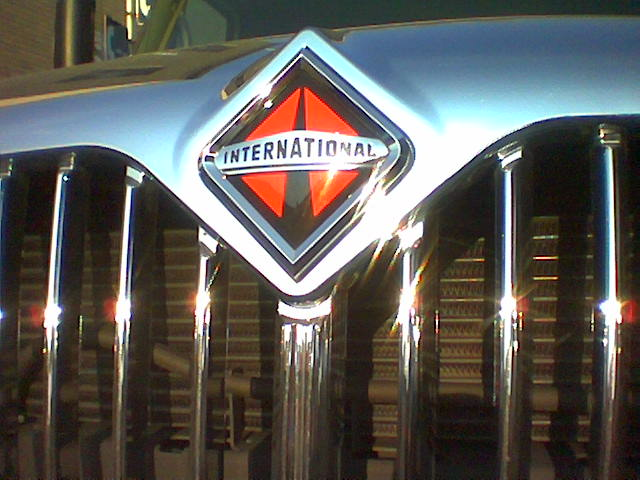 International truck grille photographed 2005